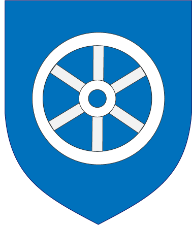 Coat of arms for the lordship of Falkenstein, in the Holy Roman Empire.